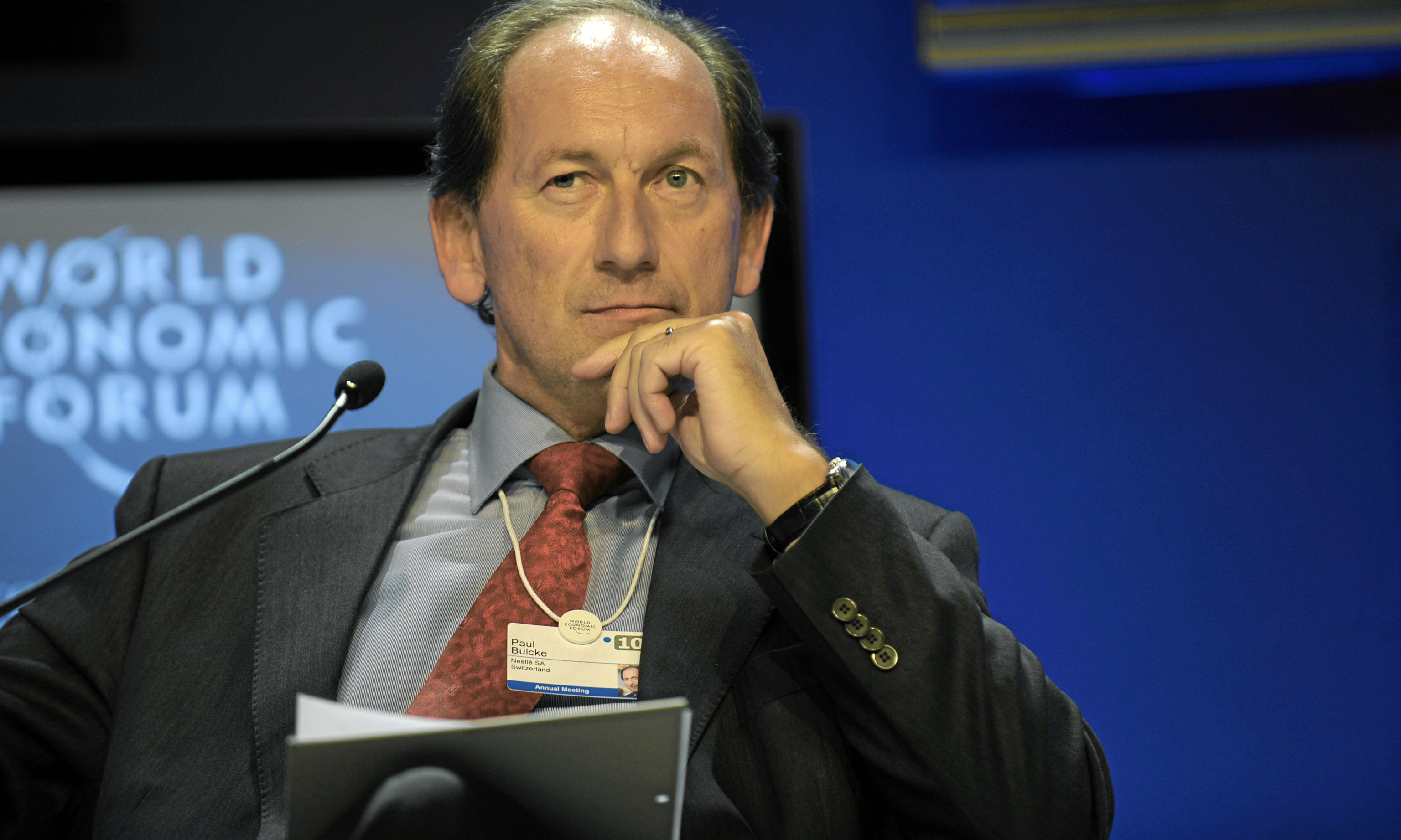 DAVOS/SWITZERLAND, 30JAN10 - Paul Bulcke, Chief Executive Officer, Nestle, Switzerland; Co-Chair of the Governors Meeting for Consumer Industries 2010 captured during the session 'Global Industry Outlook: Health, Consumers, Tech and Travel' at the congress centre of the Annual Meeting 2010 of the World Economic Forum in Davos, Switzerland, January 30, 2010. Copyright by World Economic Forum. by Michael Wuertenberg.